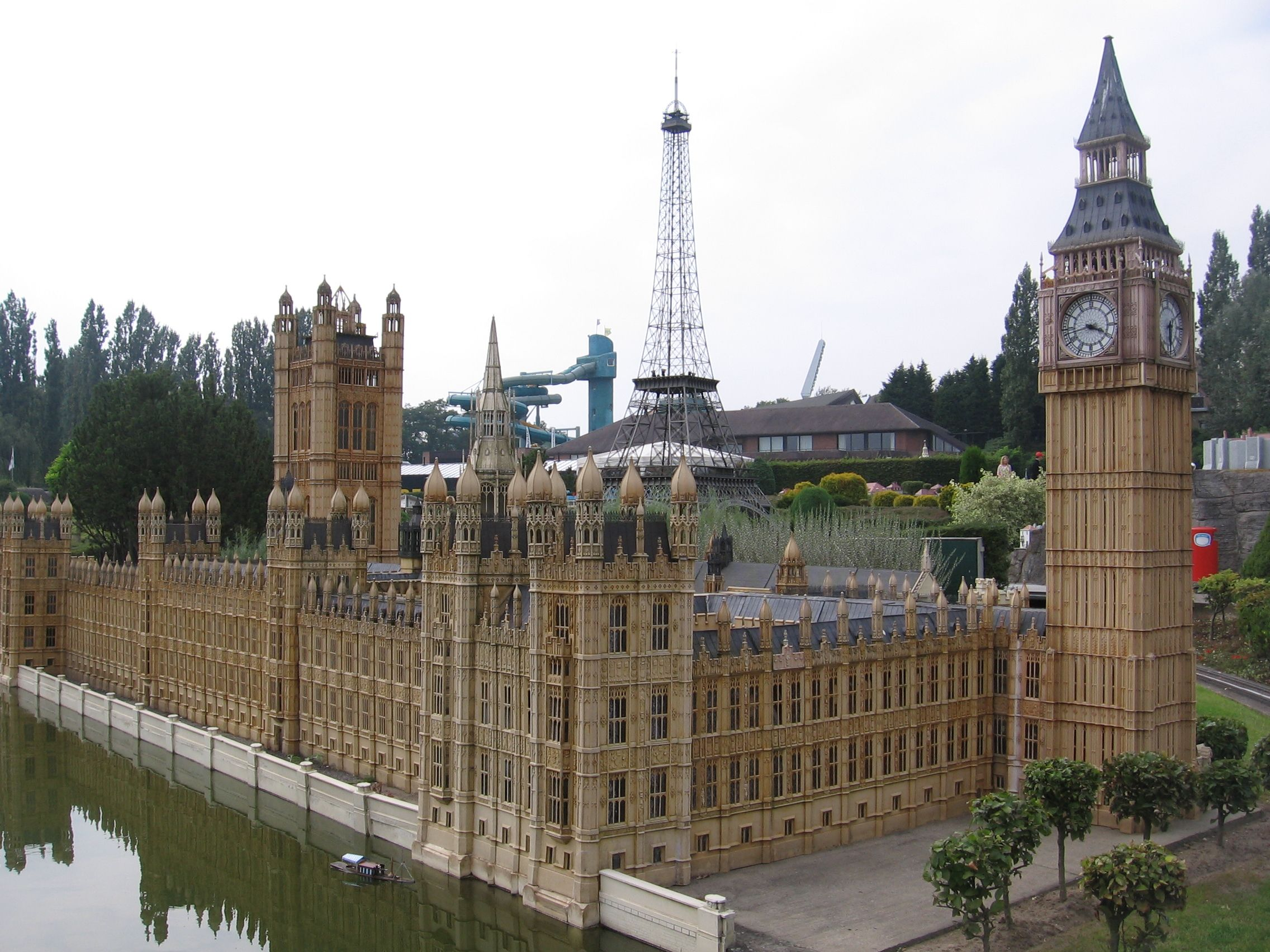 Mini Europe Park in Brussels, Belgium: Models of the British Parliament building with the Big Ben clock in London, and the Eiffel tower, Paris, France, in the background.